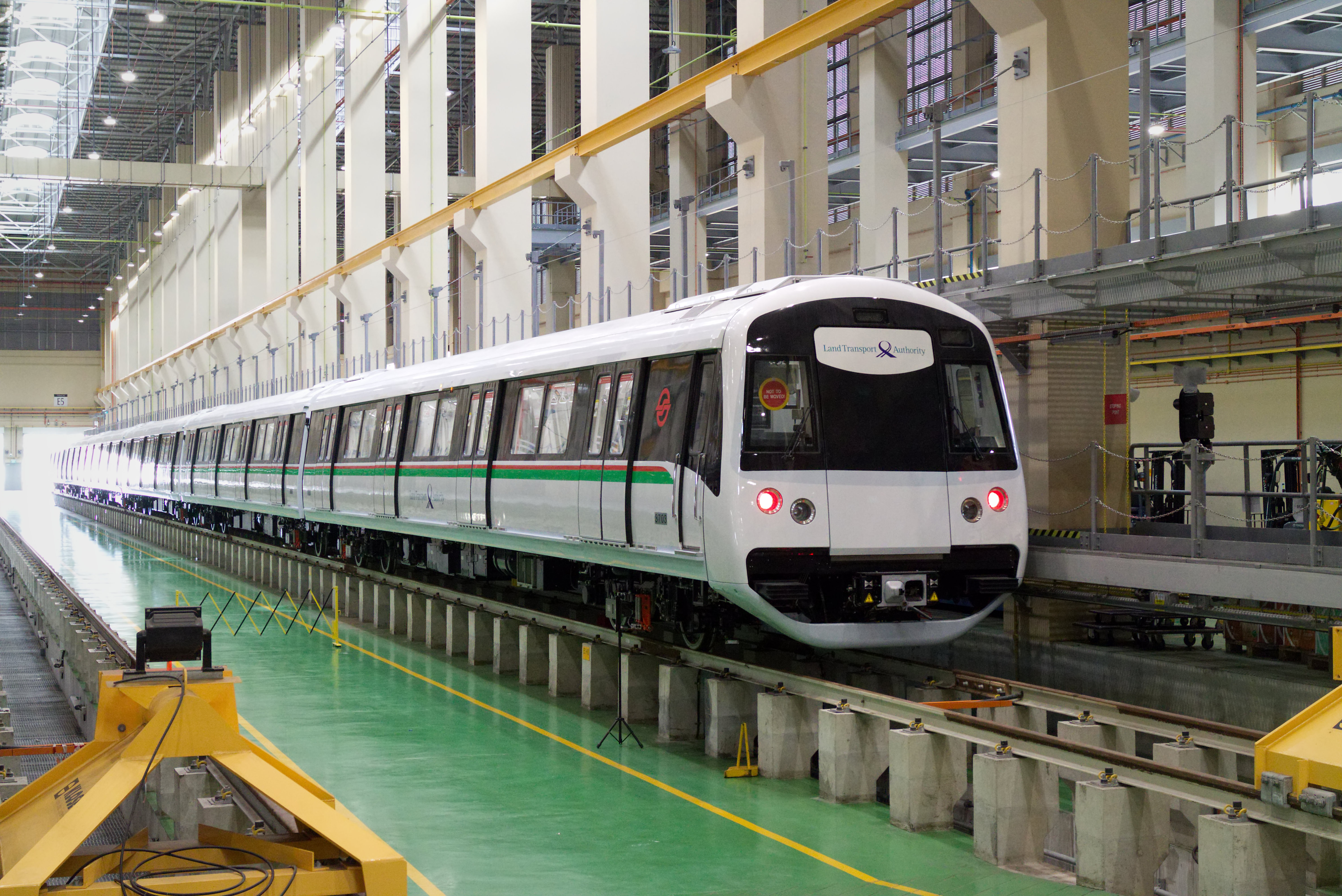 To be operated on SMRT's North South and East West Line, these are the first trains on the lines to carry the Land Transport Authority's livery. They also also feature lockable, folding seats which can be folded up to allow more standing space during peak hours.